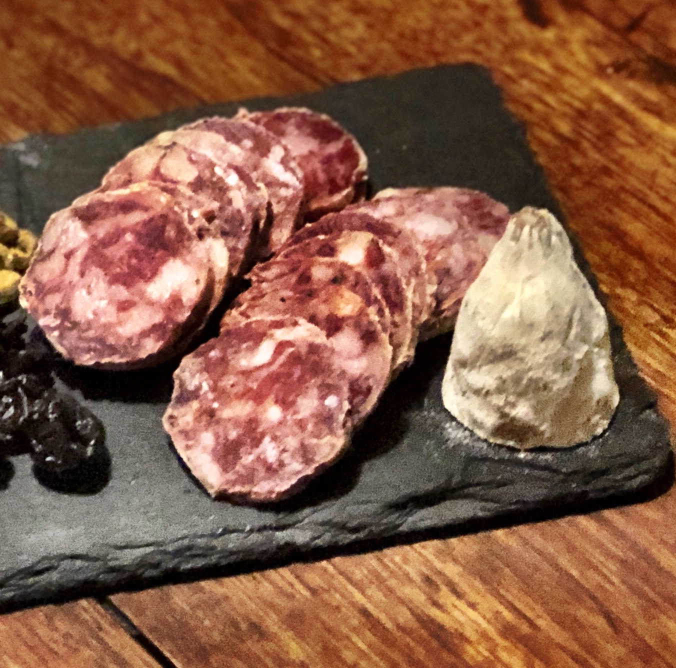 Lamb salami cacciatore from Ovello in Sonoma, California